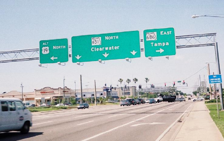 West End of Florida State Road 686 & South End of Florida State Road 651 at US Alternate Route 19 in Largo, Florida. Taken by me on May 8, 2003.